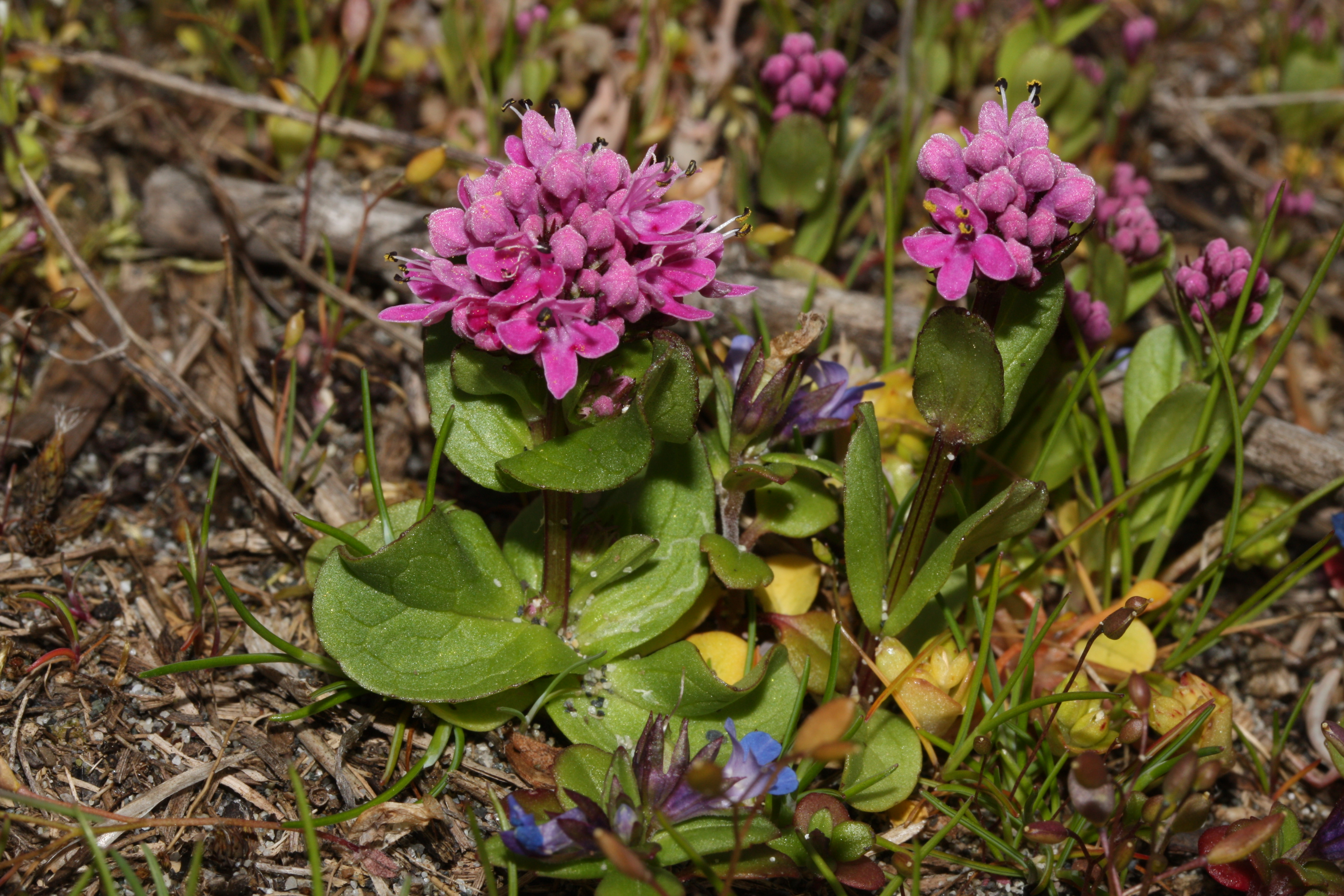 Shortspur Seablush, Sea Blush, Rosy Plectritis